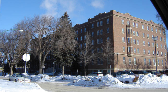 St. Paul's Hospital original nurses' residence Pleasant Hill, Core Neighbourhoods SDA, Saskatoon, Saskatchewan